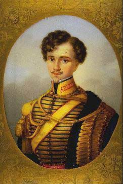 Charles II, Duke of Brunswick (1804-1873), son of Frederick William, Duke of Brunswick-Wolfenbüttel Karl II. (Braunschweig) Charles II de Brunswick Karel II van Brunswijk Original uploader was DaQuirin at de.wikipedia